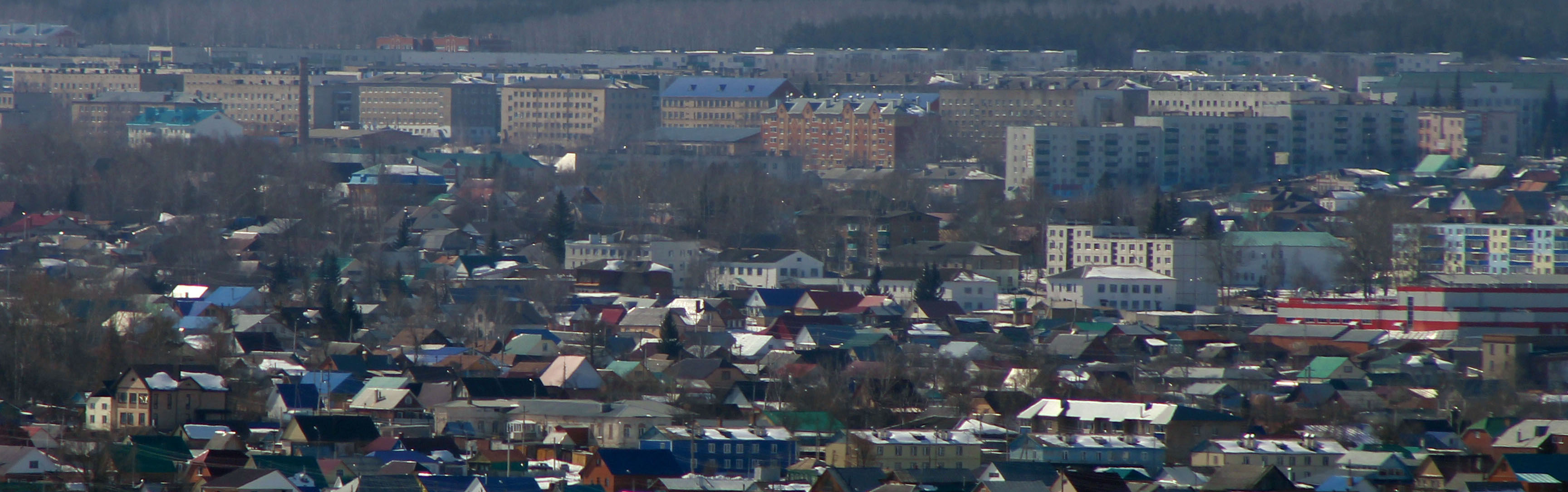 Panorama Belebey